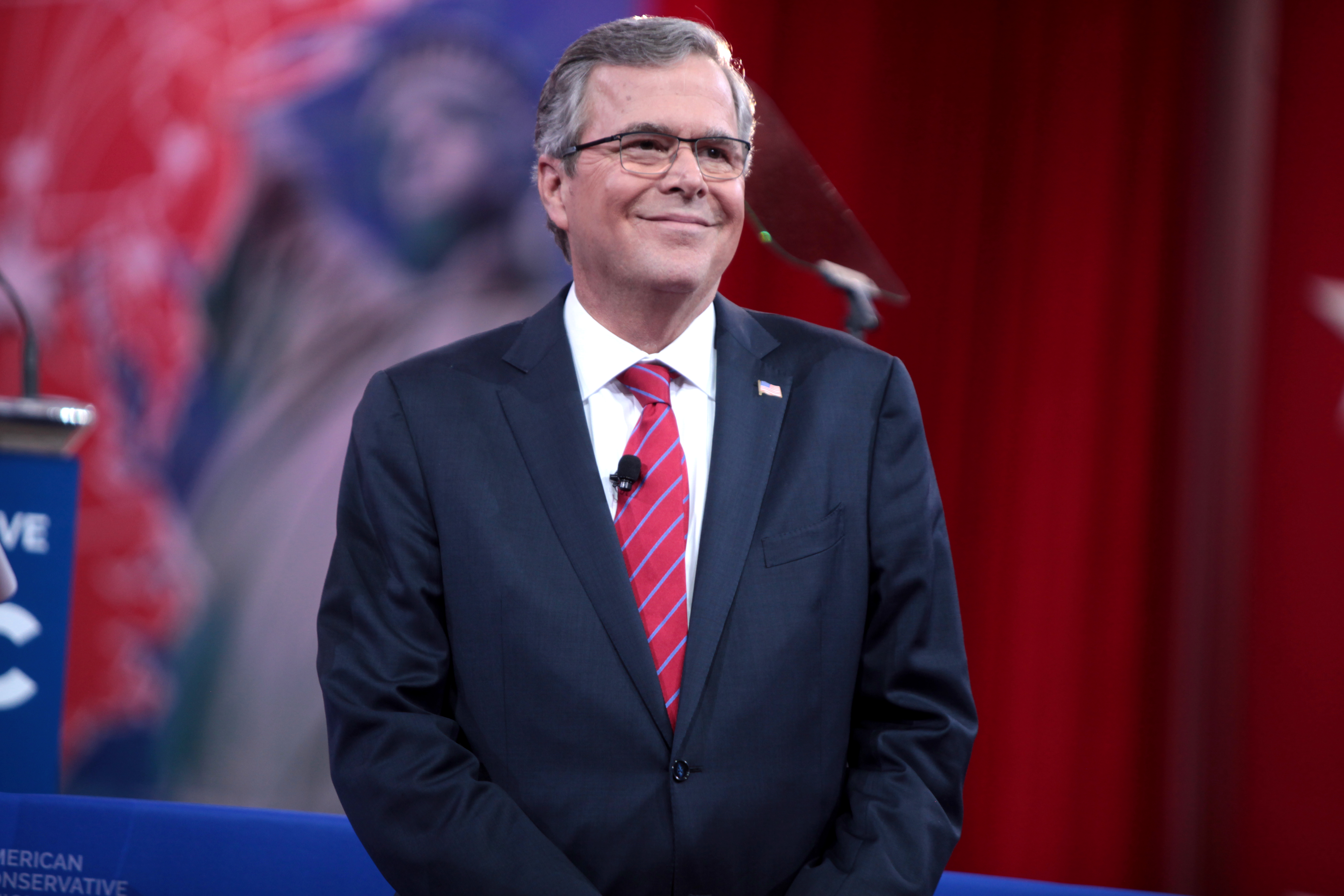 Jeb Bush speaking at CPAC 2015 in Washington, DC.